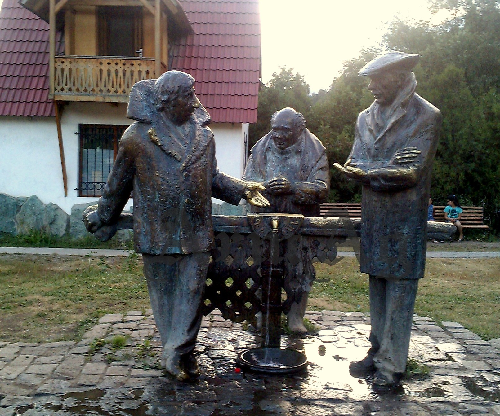 Sculptor Armenak Vardanyan